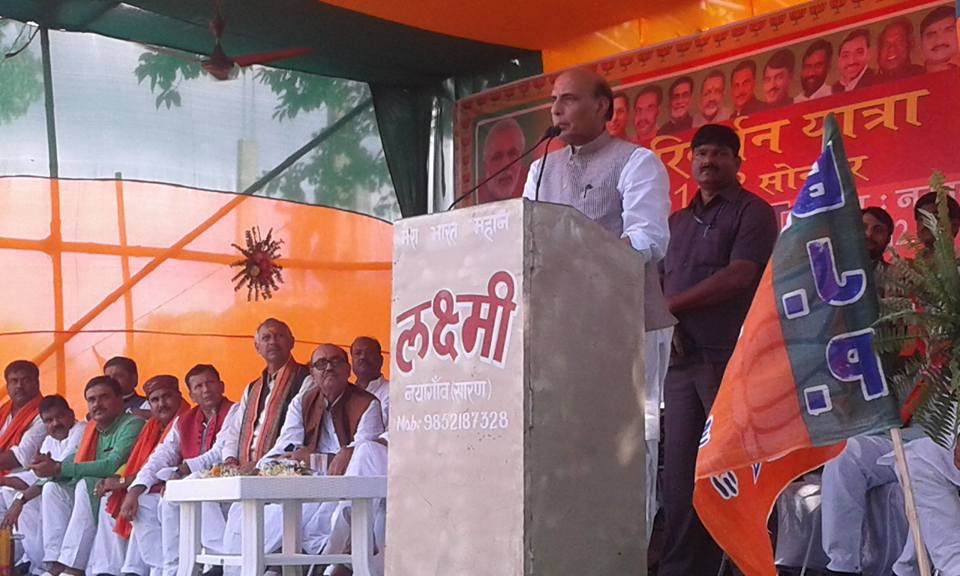 Rajnath Singh addressing a rally in Nayagaon,Sonpur in 2015